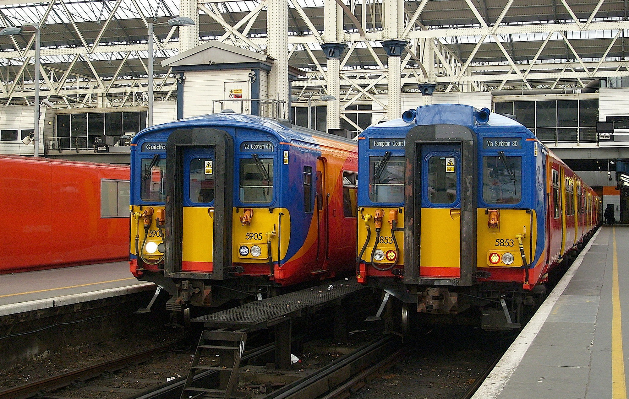 South West Trains refurbished Class 455/9 'Third Series' No. 455905 and Class 455/8 'First Series' No. 455853 at London Waterloo